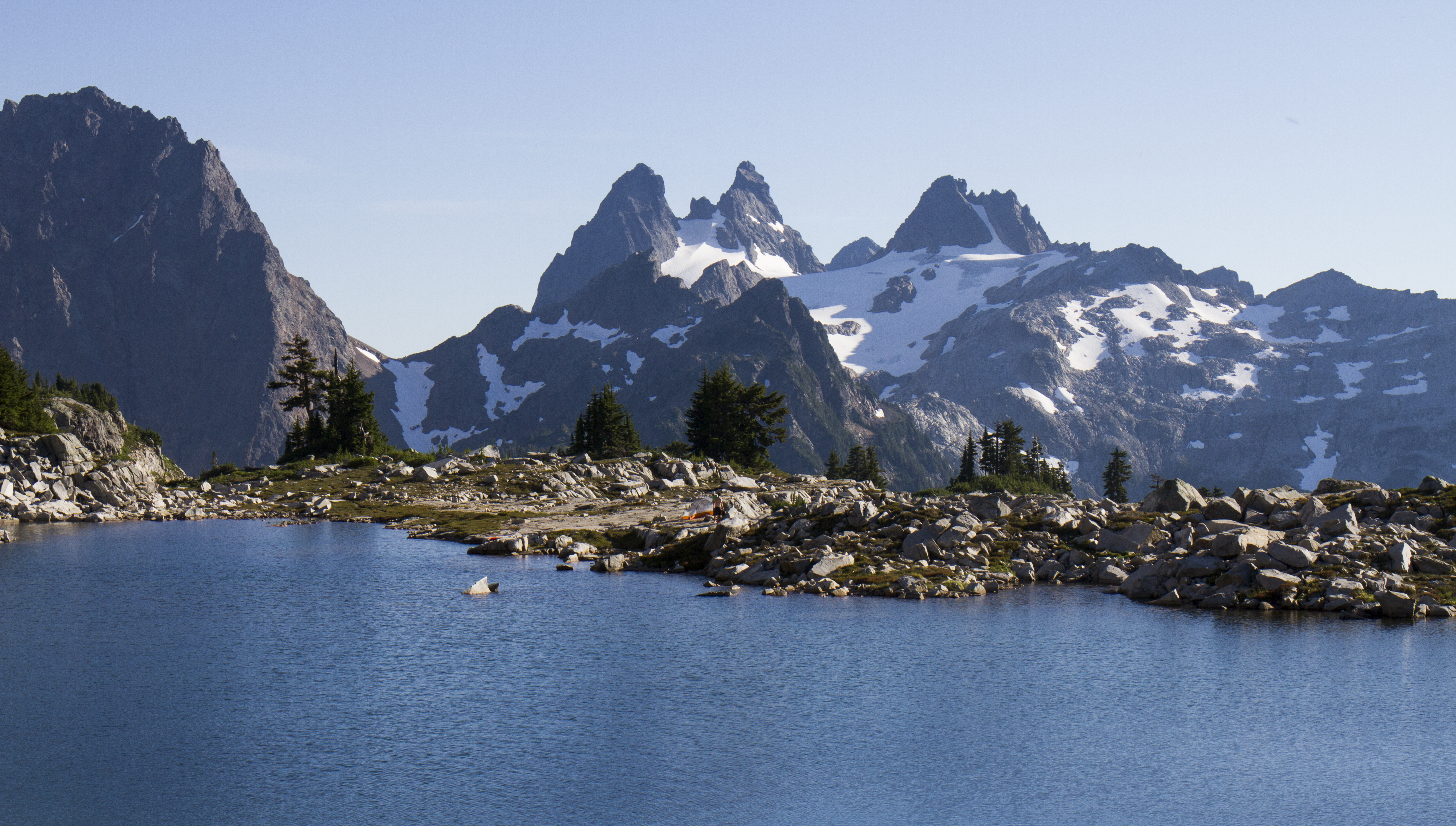 Lower Tank Lake and Chimney Rock in the Alpine Lakes Wilderness, Mt Baker Snoqualmie National Forest